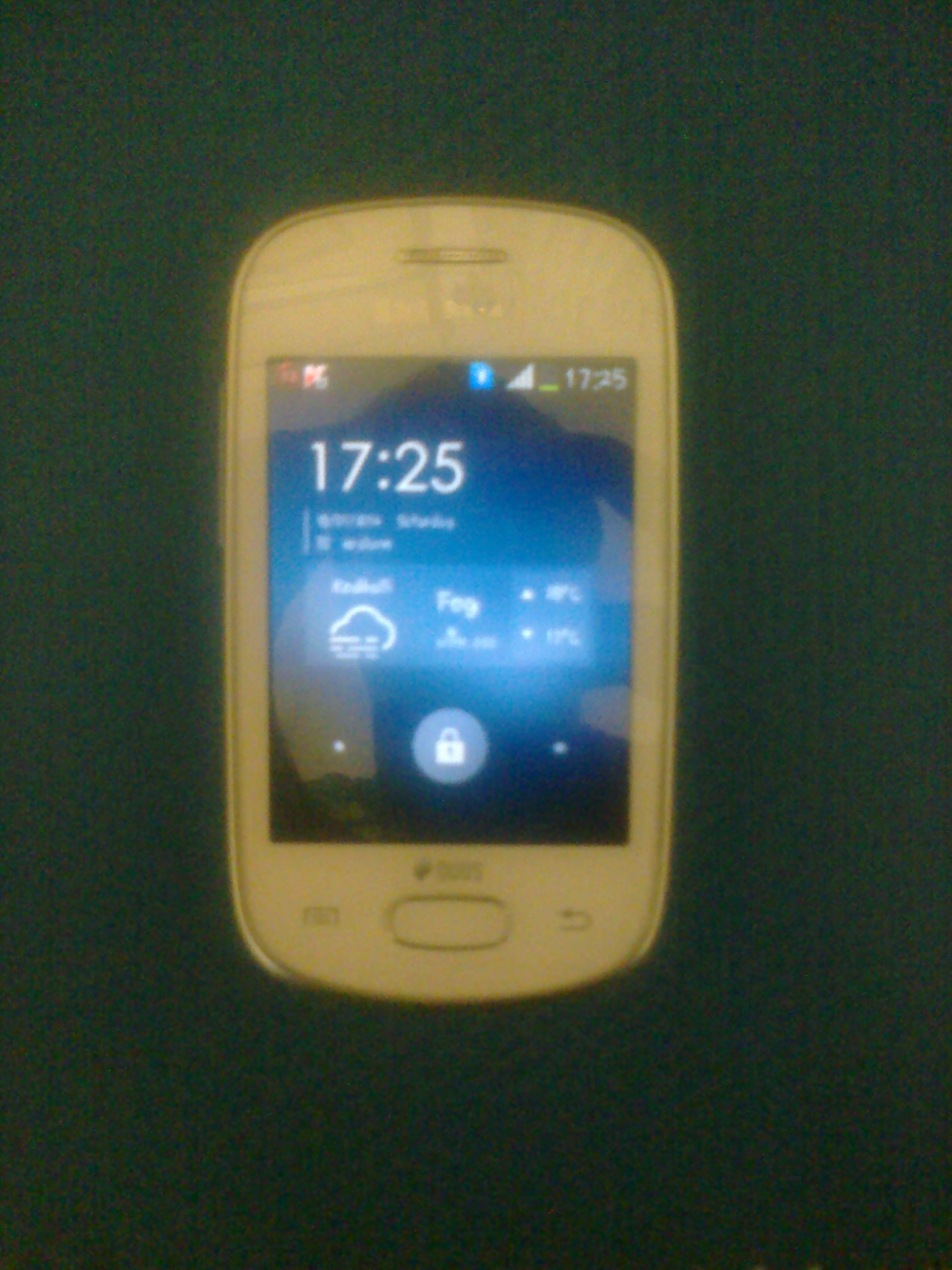 Galaxy Star overview